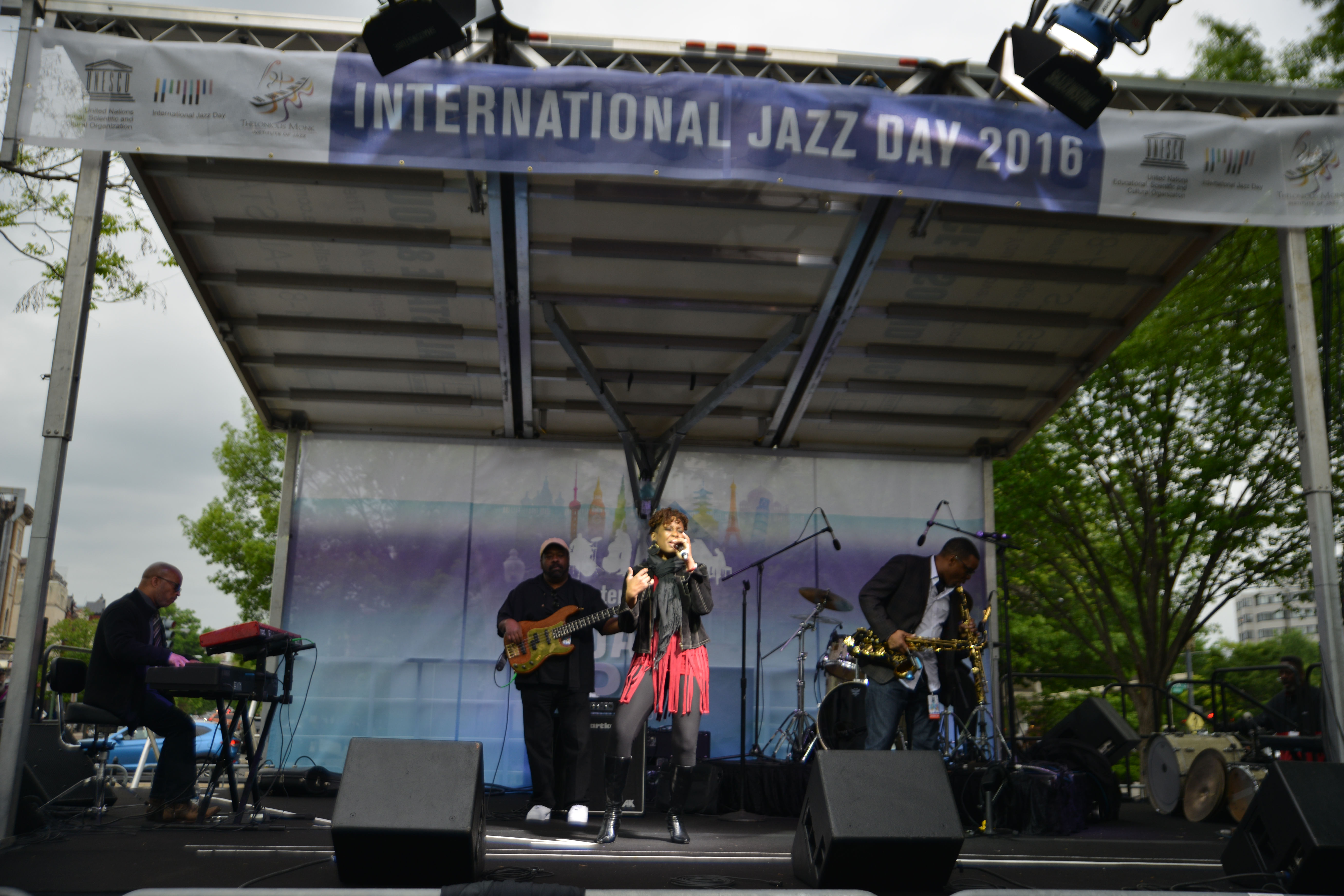 International Jazz Day 2016 DC